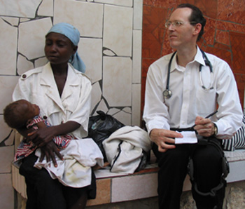 Paul Farmer- with-mom-and-baby---Quy-Ton-12-2003 1-1-310